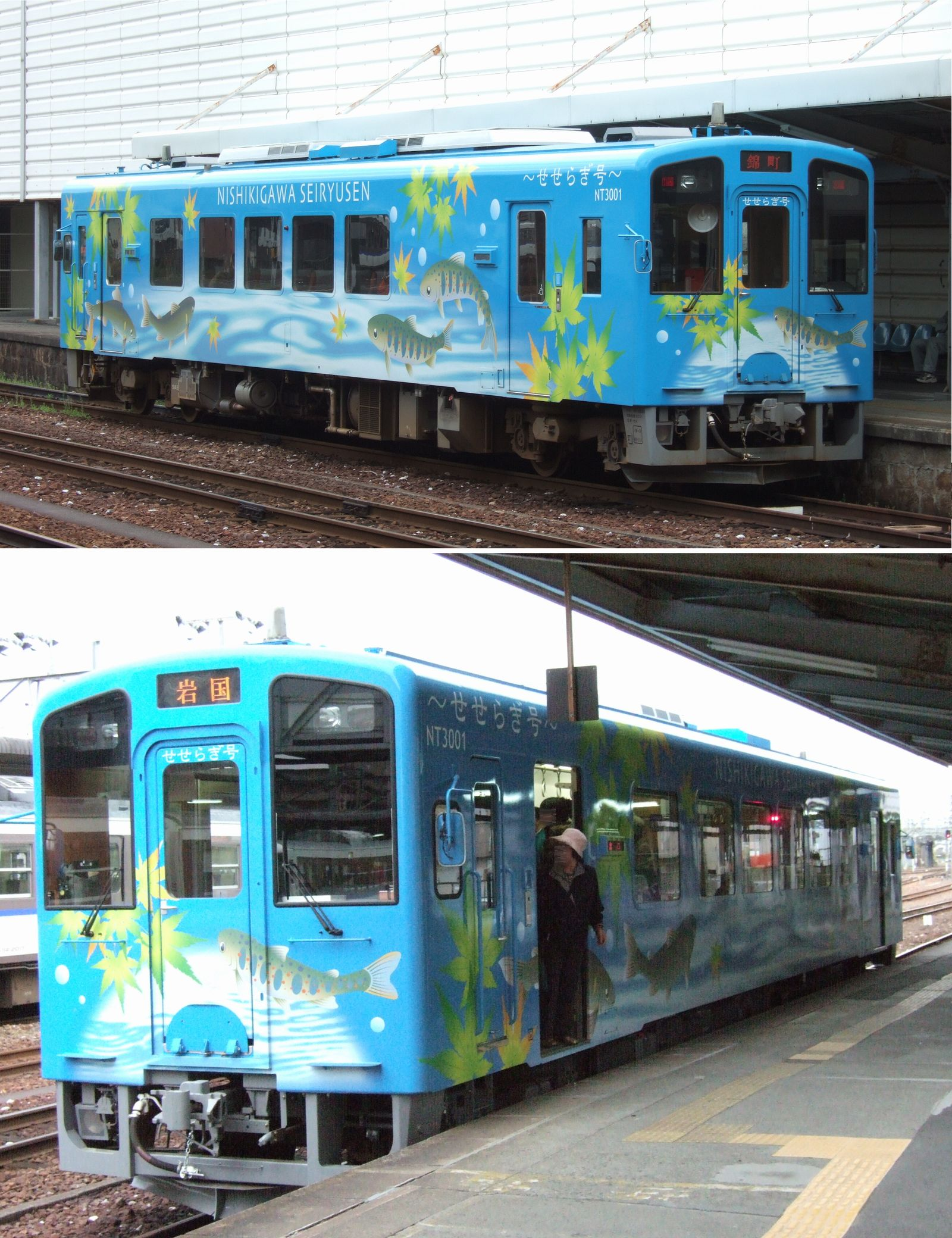 Train of Nishikigawa-Seiryu Line:"Seseragi-go" in Japan(錦川鉄道錦川清流線の所属車両：せせらぎ号(NT-3000型))